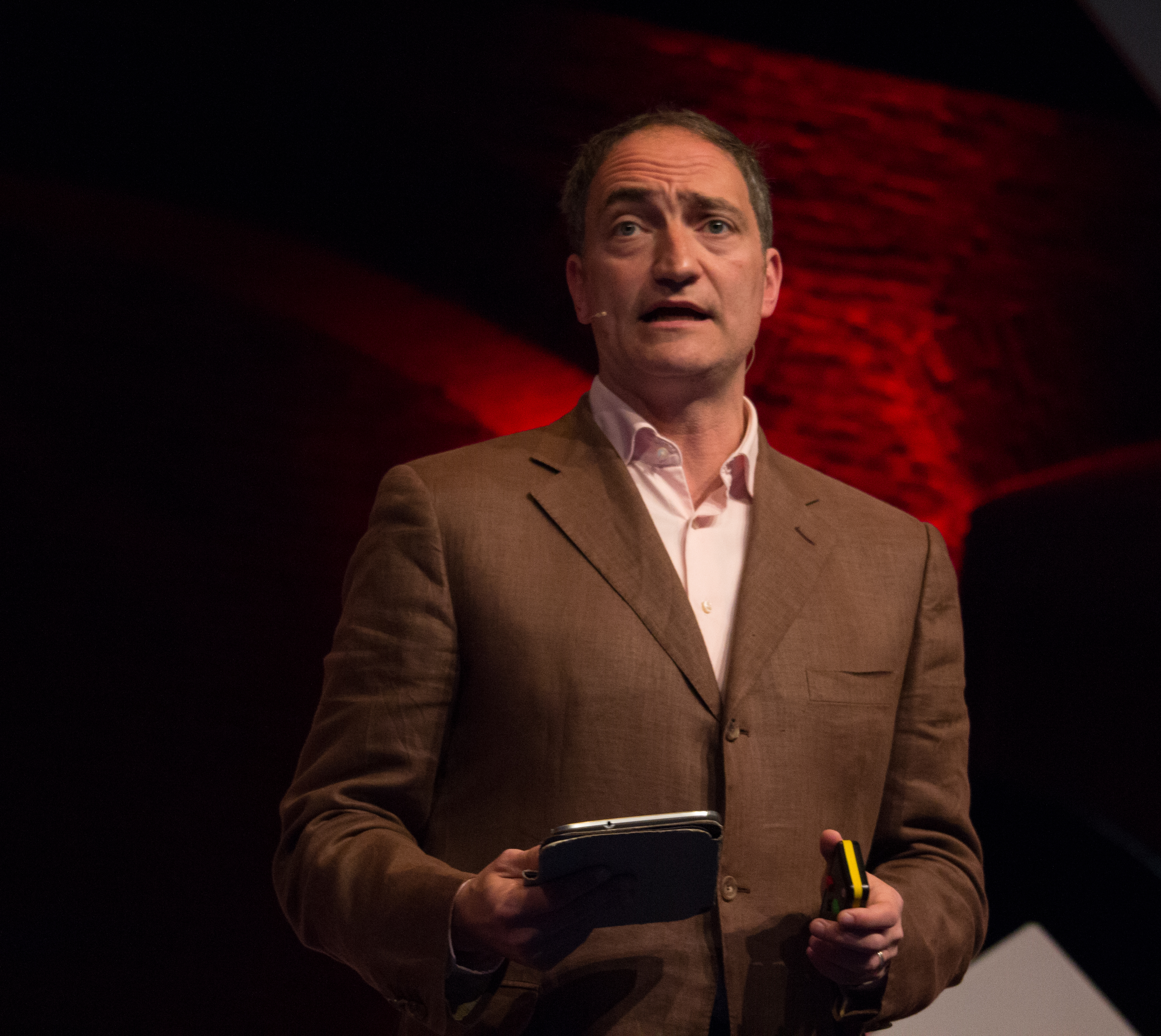 Pep Rosenfeld presenting at TNW Conference